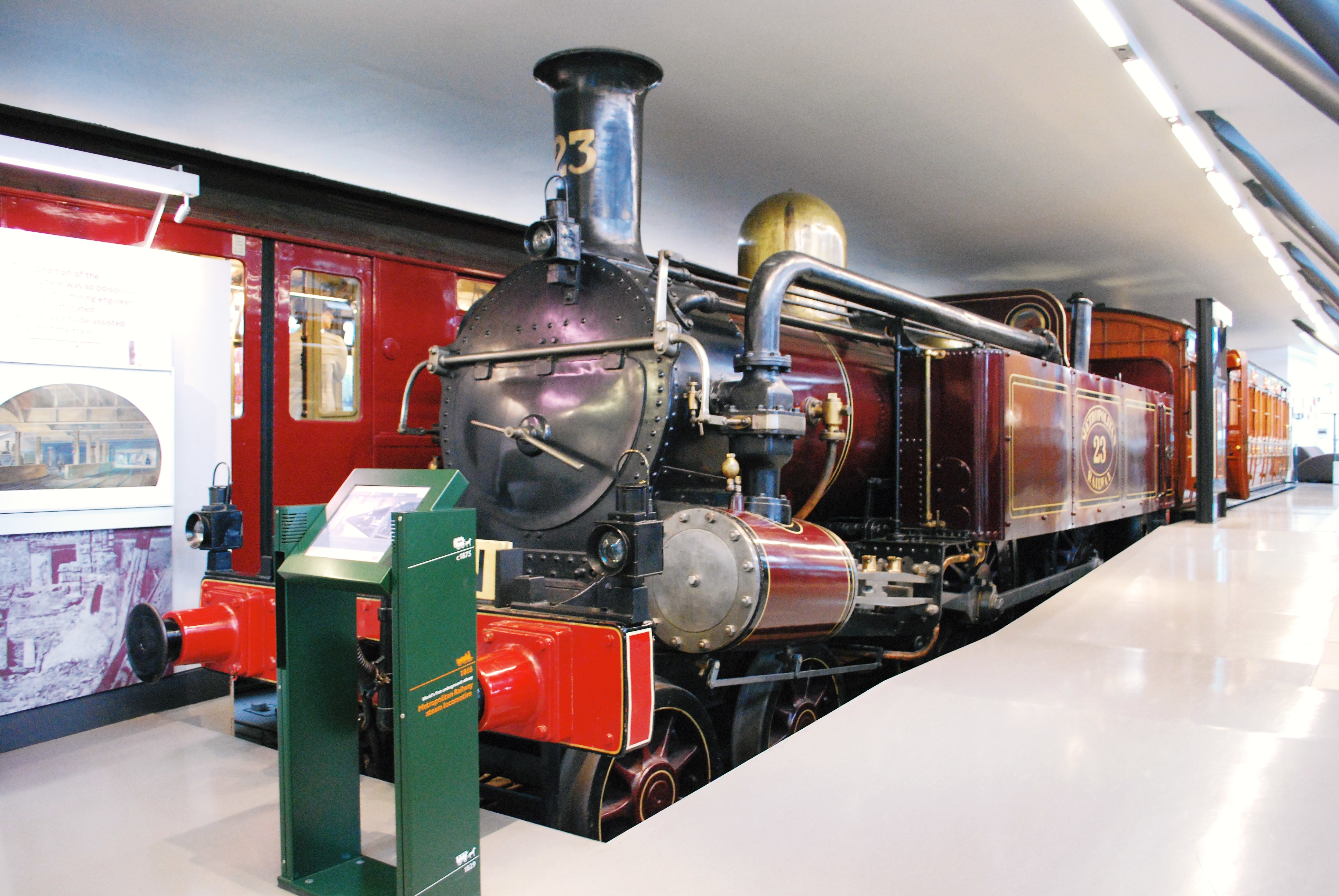 Preserved Metropolitan Railway Class "A" 4-4-0T No.23 built by Beyer Peacock in 1866 and not withdrawn (as London Transport No.L45) until 1948, by when it had been reduced to hauling maintenance trains. At the LT Museum, 6/09.